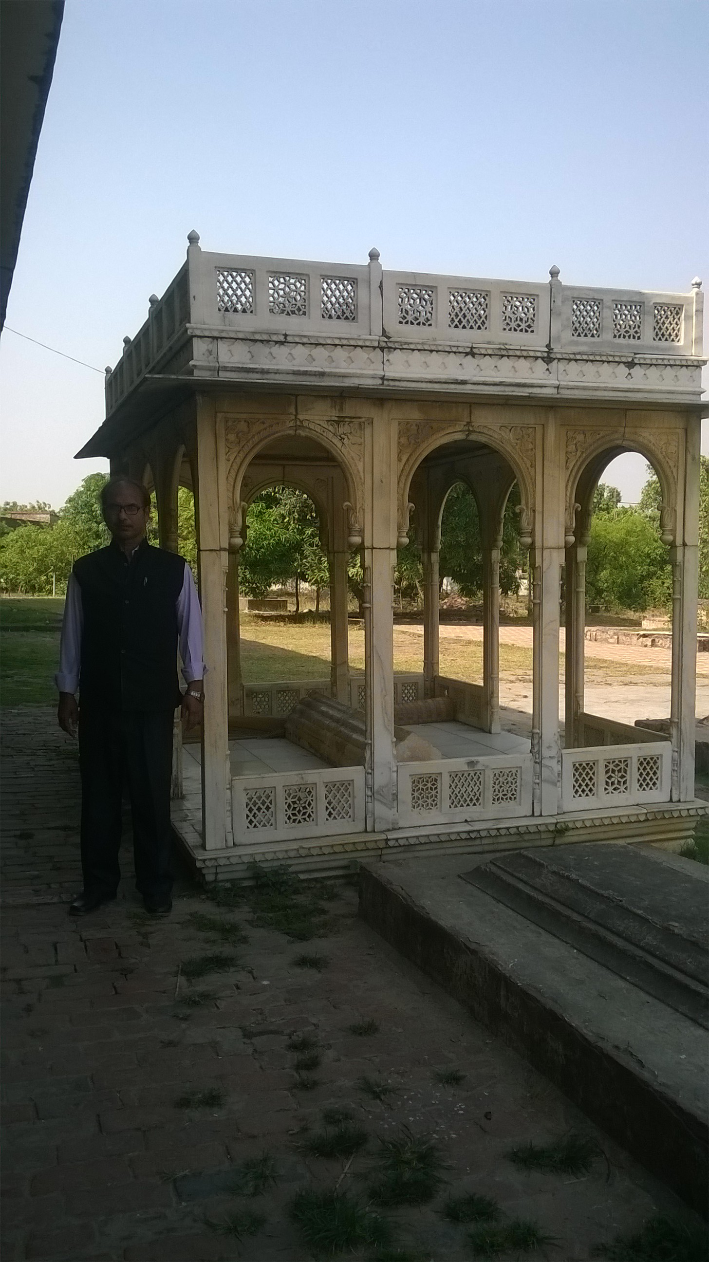 Grave of Raja Jung Bahadur of Nanpara Estate of Bahraich District at Shahi Jama Masjid Nanpara